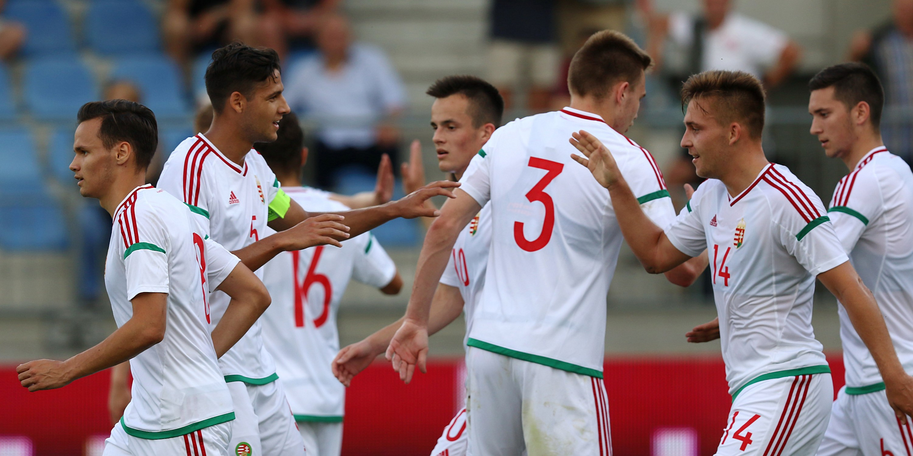 Friendly match: Austria U-21 (red shirts) vs. Hungary U-21 (white shirts) at 12. June 2017 in the Sonnenseestadion in Ritzing 2:1 (1:1) – The photo shows from left to right: Máté Tóth (Haladás Szombathelyi), Ákos Kecskés (Újpest FC), Benedek Murka (Vasas FC), Attila Szalai (SK Rapid Wien), Bence Lenzsér (Paksi FC) and Máté Vida (Vasas FC) jubilant about the goal for 1-1